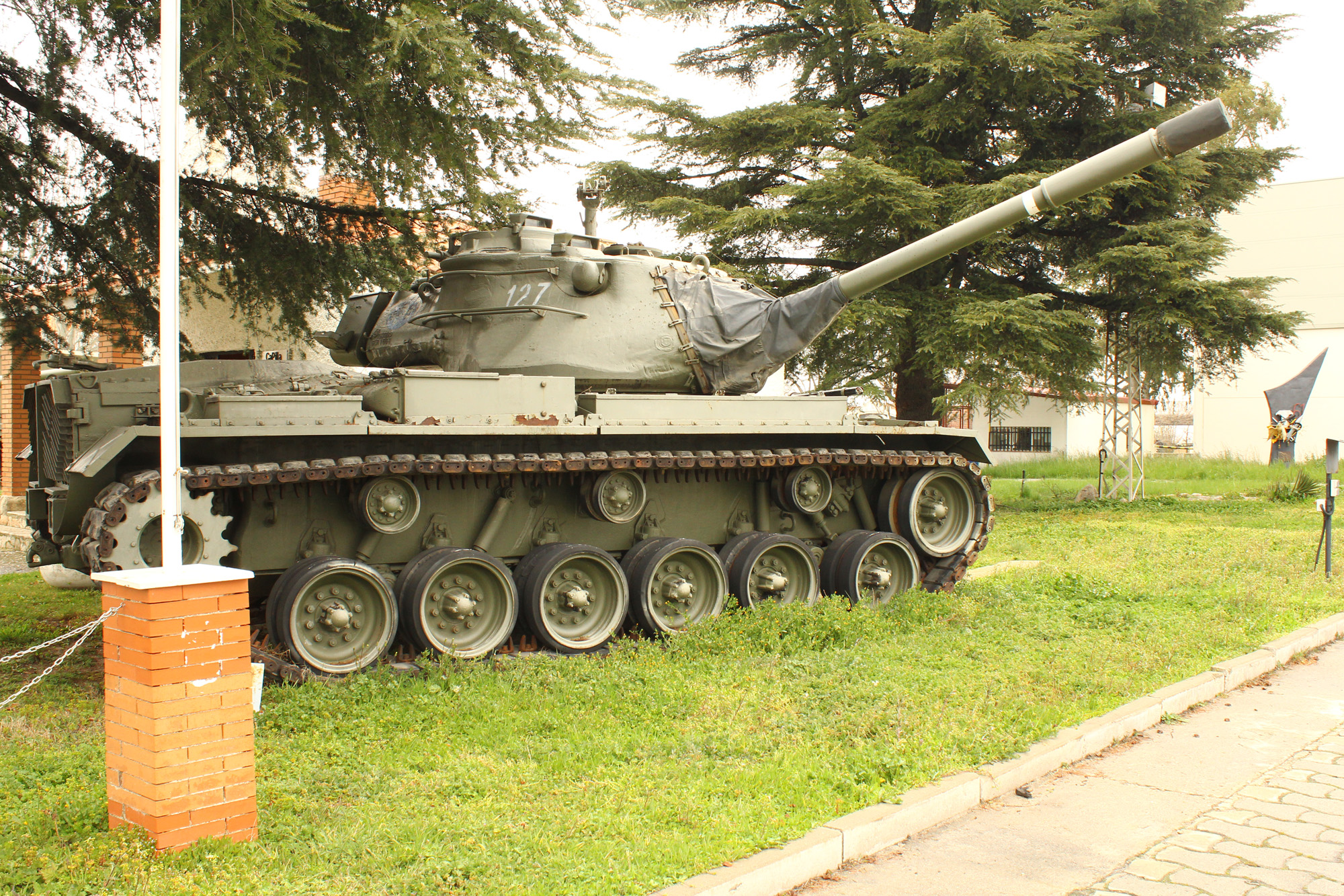 Tanque medio M-47 General Patton, con cañón de 90 mm. Empezó a fabricarse en Estados Unidos en 1951, construyéndose 8.576 unidades. El Ejército Español recibió sus 13 unidades iniciales el 12 de febrero de 1954, llegando a operar 495 tanques de este tipo. Entre 1975 y 1980 329 tanques fueron modernizados a la versión M-47E1 y 46 a la versión M-47E2. En España se hicieron famosos porque fueron los tanques que el general Jaime Milans del Bosch sacó a las calles de Valencia durante el intento de golpe de Estado del 23 de febrero de 1981. En 1990 se inició la sustitución de los M-47 aún activos -muchos de ellos serían desguazados- por tanques M-60. En el museo de El Goloso se conservan dos M-47. Uno de ellos -el situado junto a la capilla de La Purísima- todavía funciona, y luce los emblemas del Regimiento de Caballería Ligero Acorazado "Lusitania" nº 8. Armored Units Museum of El Goloso Medium Tank M-47 General Patton, with 90mm cannon. It began to be manufactured in the United States in 1951, building 8,576 units. The Spanish Army received its initial 13 units on February 12, 1954, reaching 495 tanks of this type. Between 1975 and 1980, 329 tanks were upgraded to version M-47E1 and 46 to version M-47E2. In Spain became famous because they were the tanks that General Jaime Milans del Bosch took to the streets of Valencia during the attempted coup of February 23, 1981. In 1990 began replacing the M-47 still active -many of them were scrapped- by M-60 tanks. In the museum of El Goloso there are conserved two M-47. One of them, the next to the Chapel of the Immaculate Conception, still works, and looks the emblems of the Light Armored Cavalry Regiment "Lusitania" No. 8.